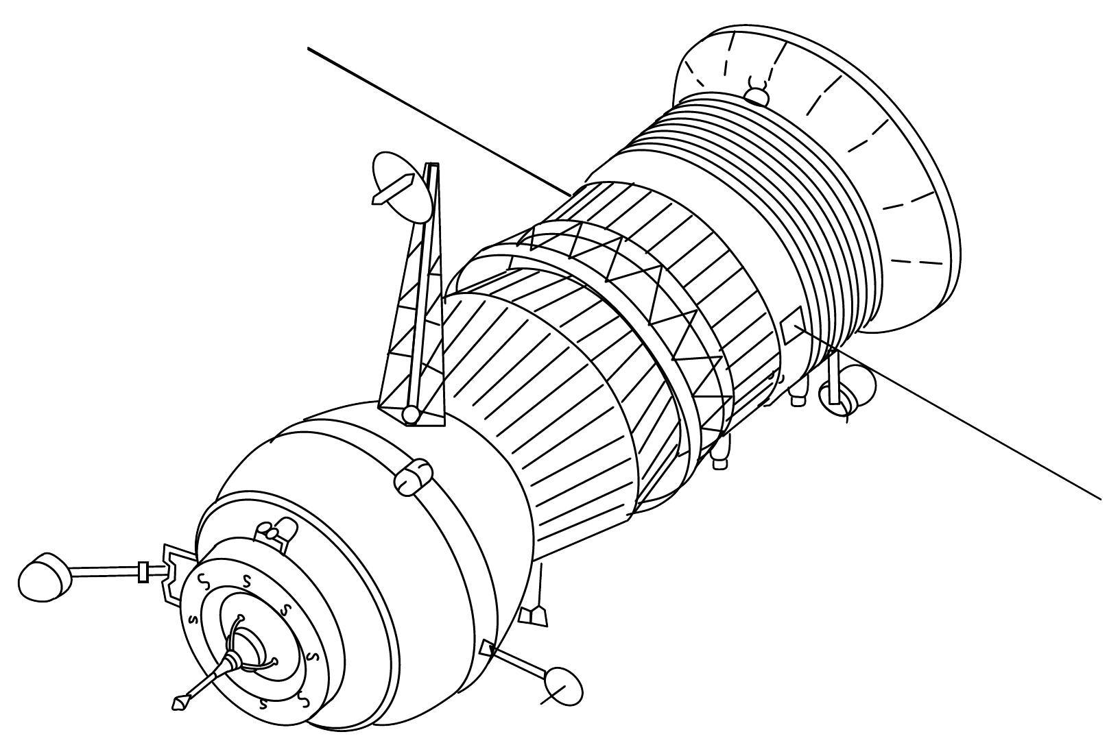 Progress logistics resupply spacecraft. It consists of the dry cargo module (left); the tanker compartment (center); and a stretched service module (right).